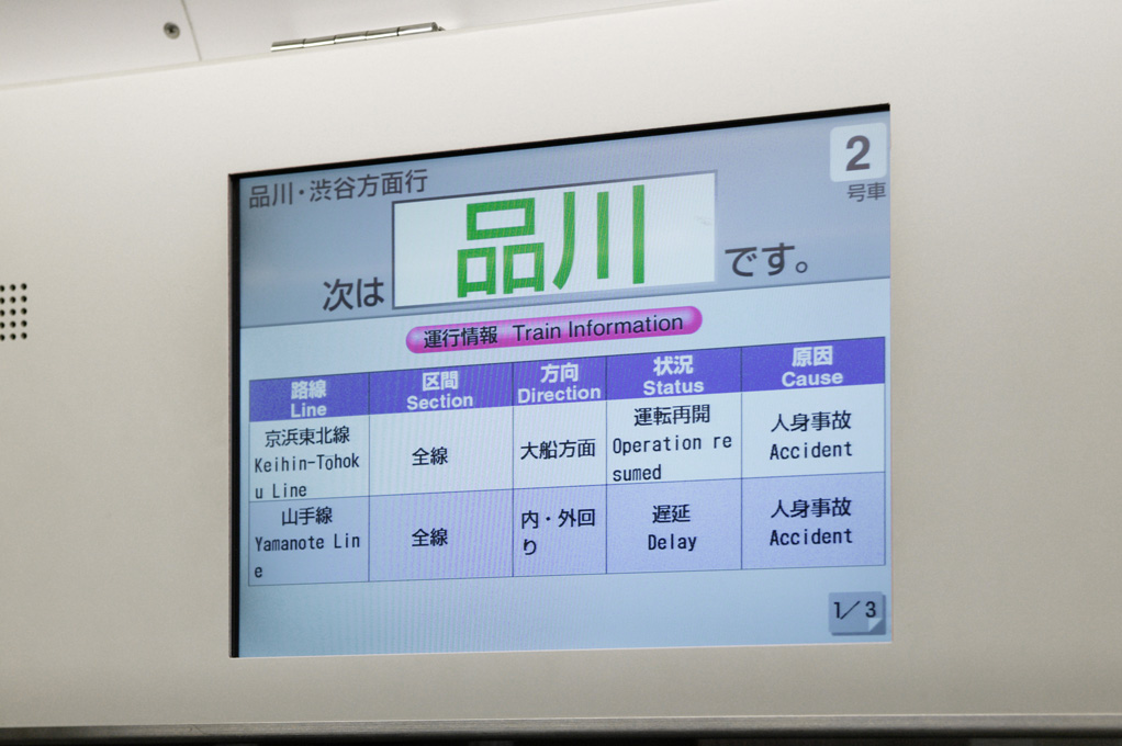 An in-car information display of JR East E231 series EMU on the Yamanote Line